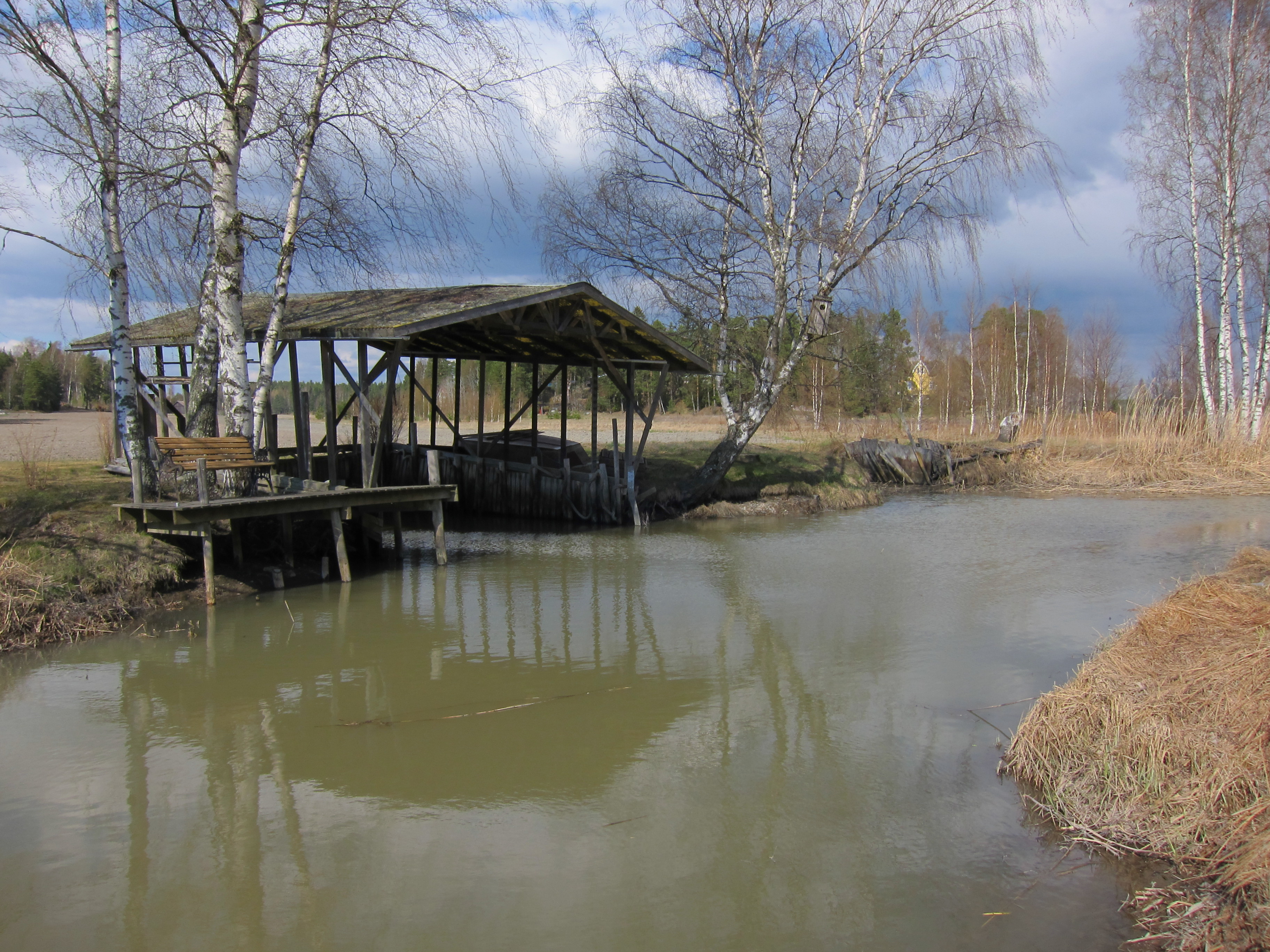 Vaarjoki is a river in Finland Proper. Its origin is in Naantali and Masku, and it flows into the sea.